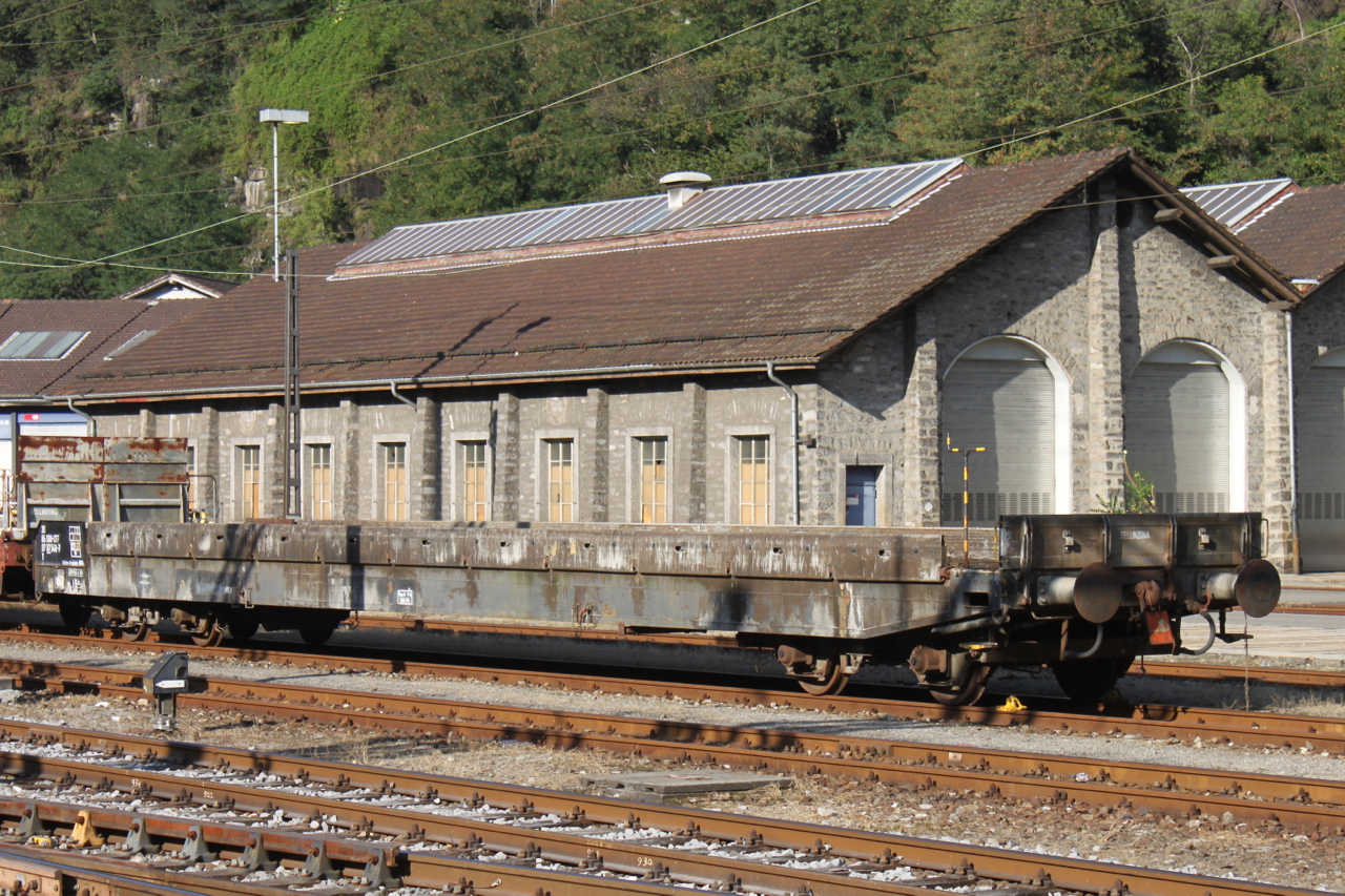 SBB CFF FFS Y 30 85 97 07 548-7 at Biasca station.